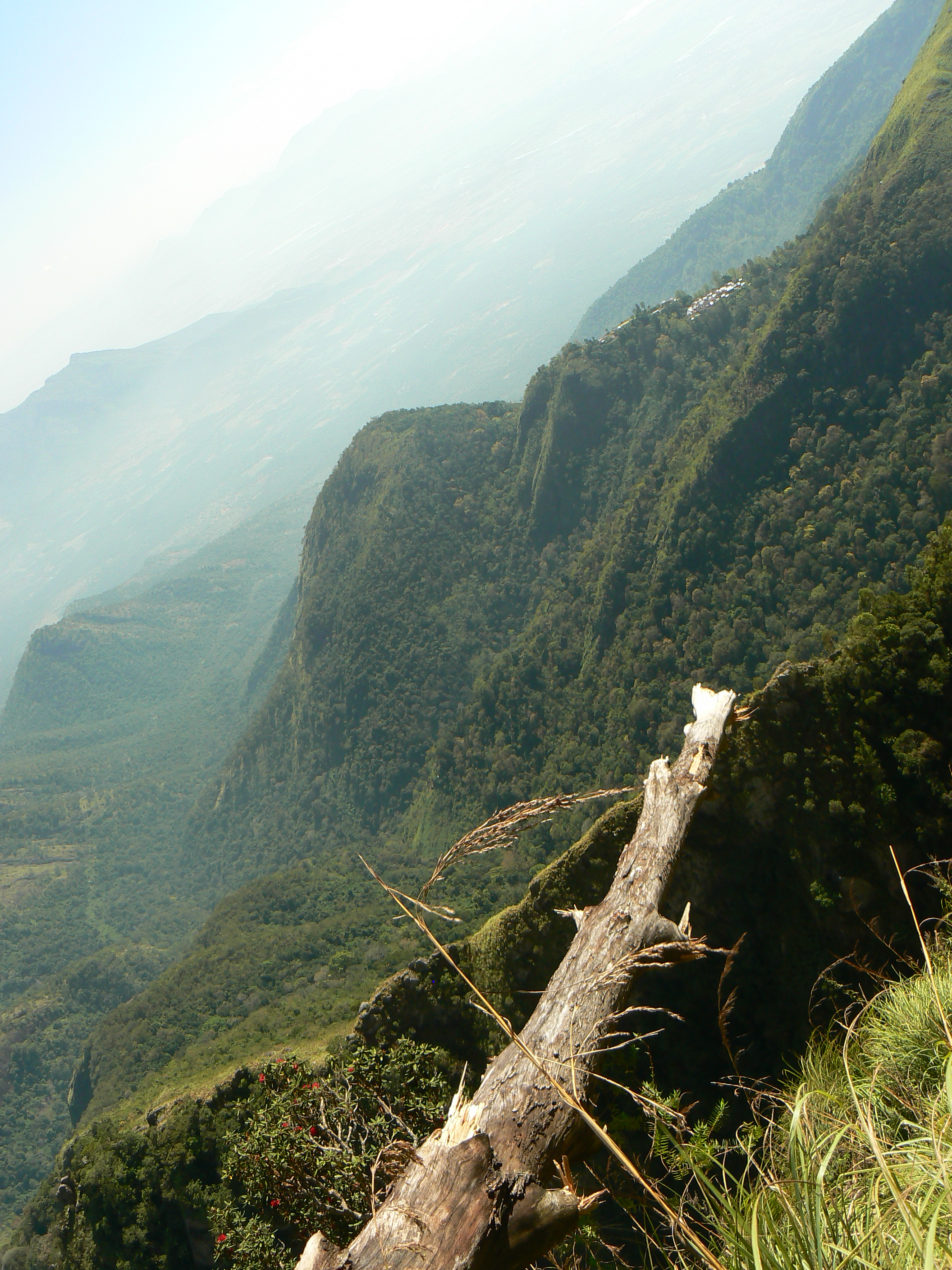 A steep slope on the Palani hills